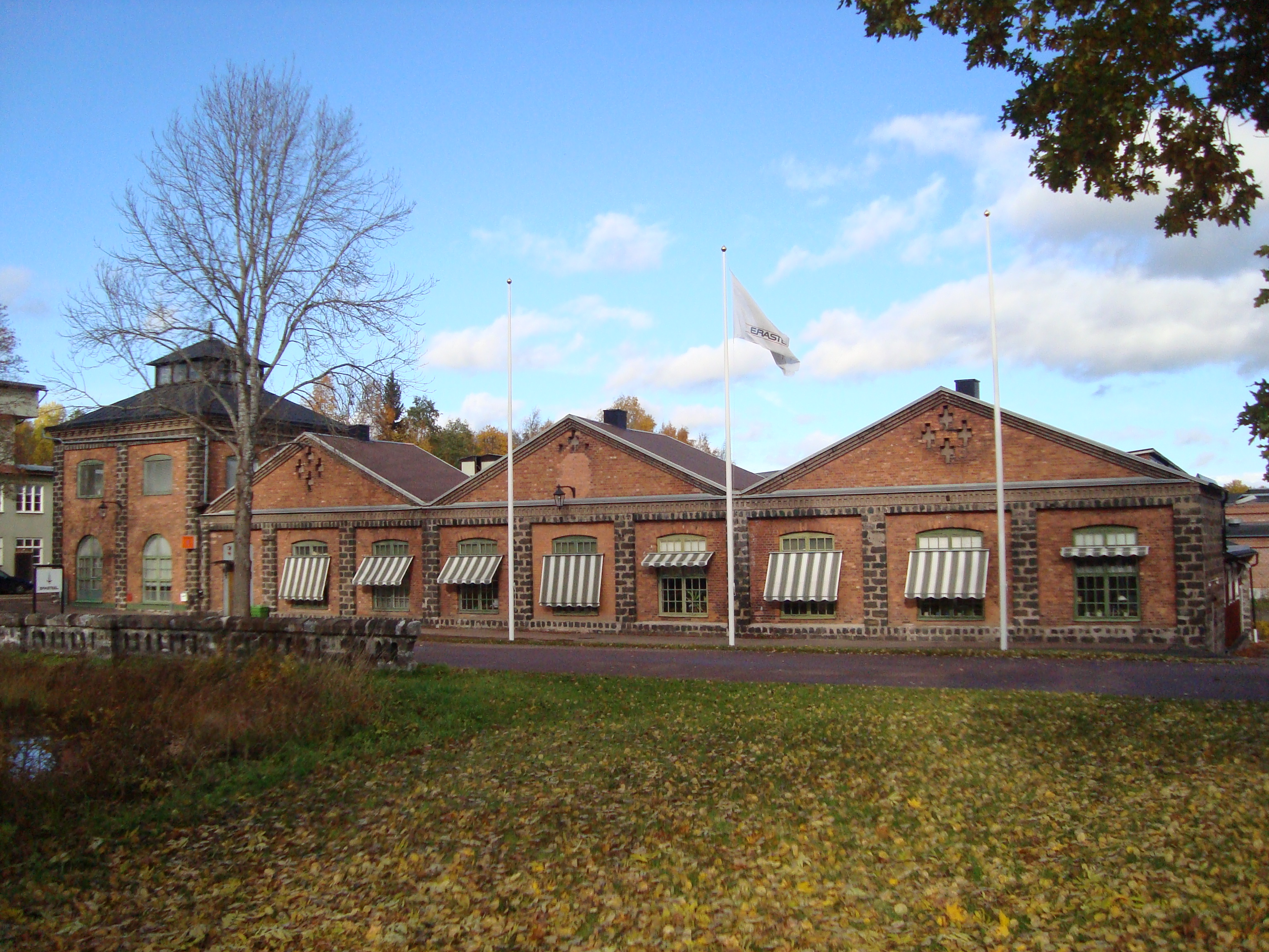 Erasteel works in Vikmanshyttan, Hedemora municipality, Sweden